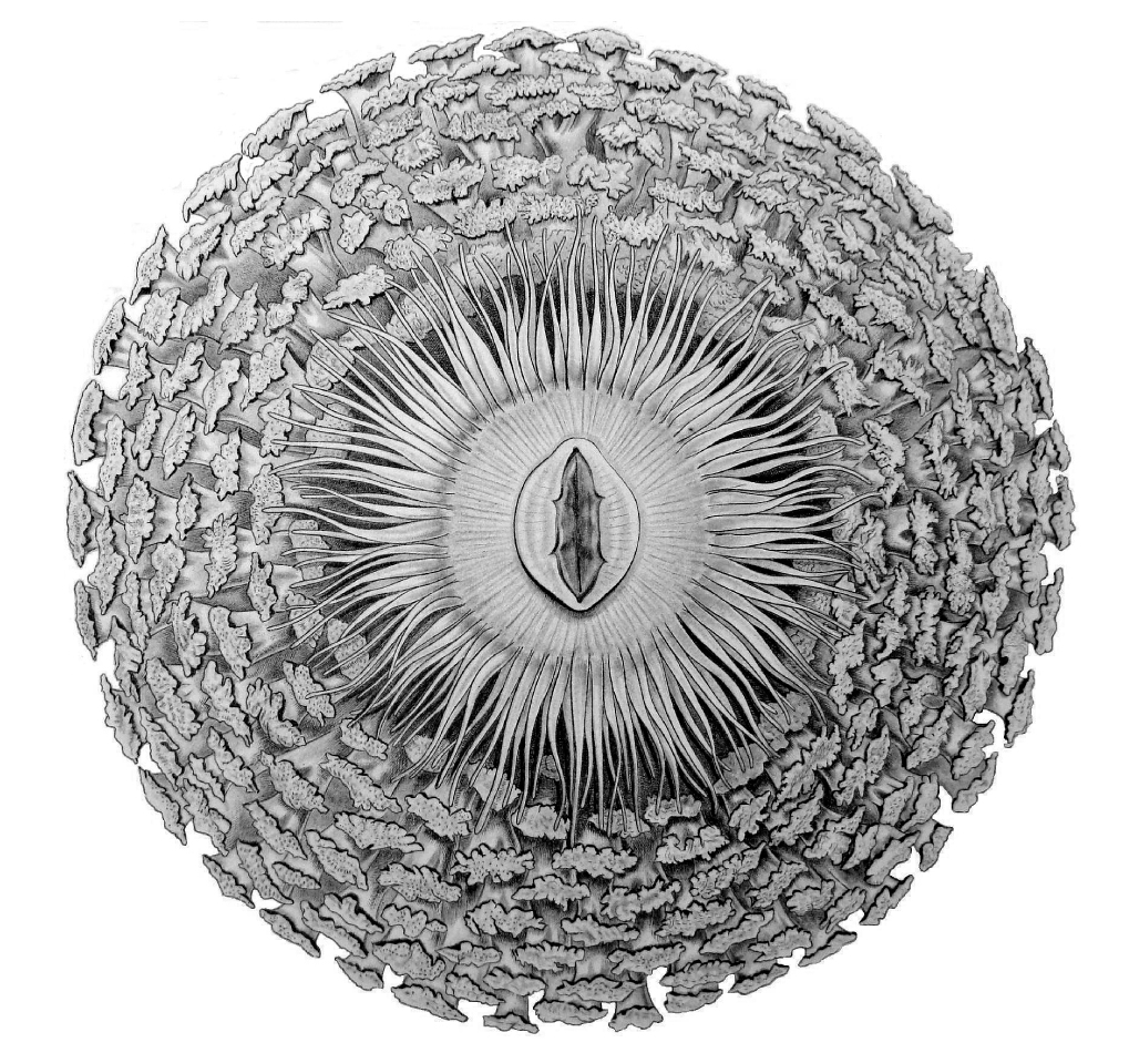 Holotype of Phyllodiscus semoni. Schematic drawing showing column and extended tentacles (after Kwietniewski, 1898). The depicted animal most probably represented a morphotype resembling a relatively smooth disc.